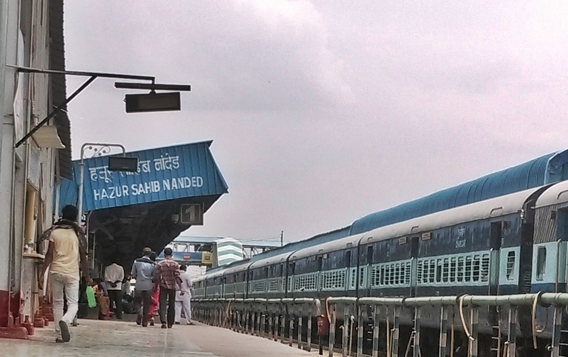 Nanded Railway Station, Maharashtra State, India.